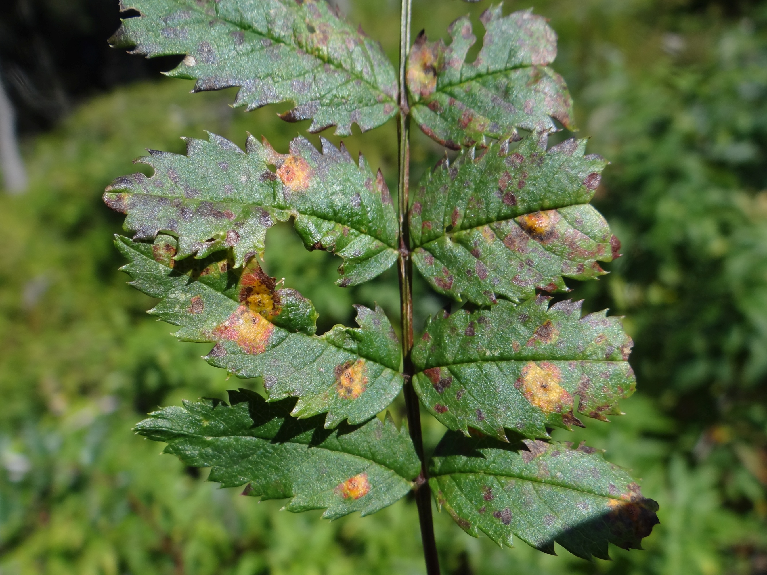 Gymnosporangium cornutum on Sorbus aucuparia (location:Slovakia, Nízke Tatry)